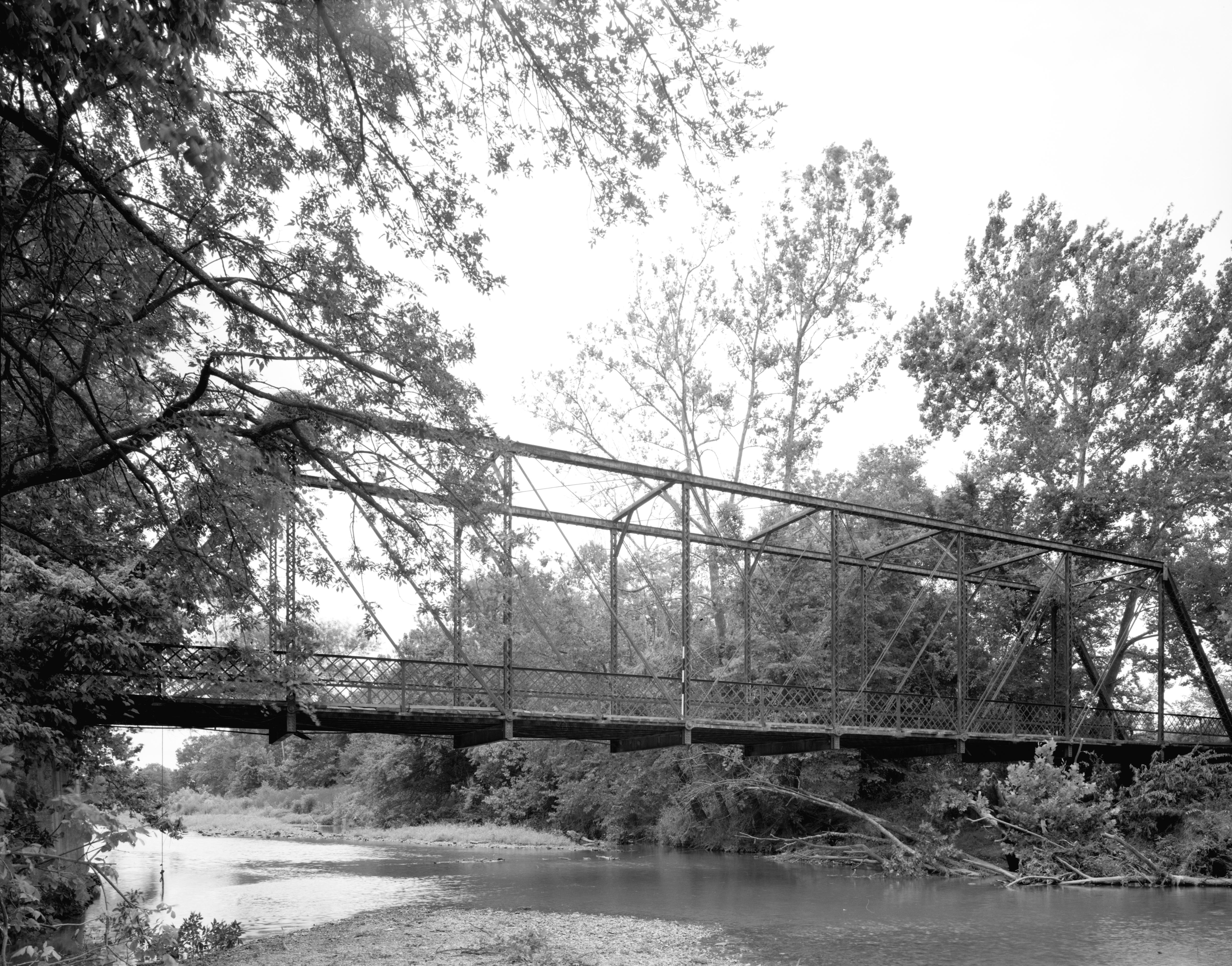 Eastern (upstream) side of the Osage Creek Bridge, which spans Osage Creek north of Tontitown in Benton County, Arkansas, United States. Built in 1911, this Pratt through truss bridge is listed on the National Register of Historic Places.